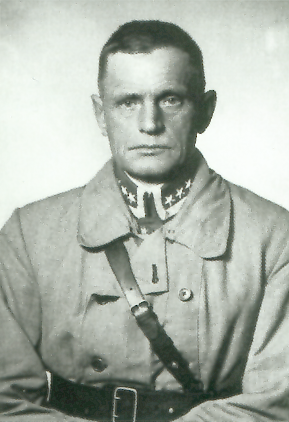 Norwegian Army Colonel Otto Ruge